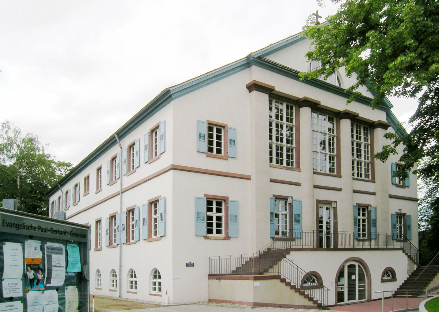 Former public bath, now a church.